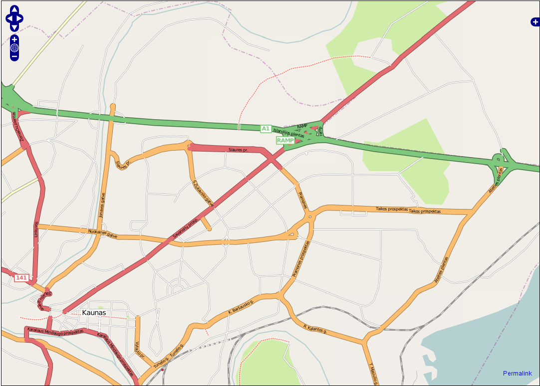 This map may be incomplete, and may contain errors. Don't rely solely on it for navigation.